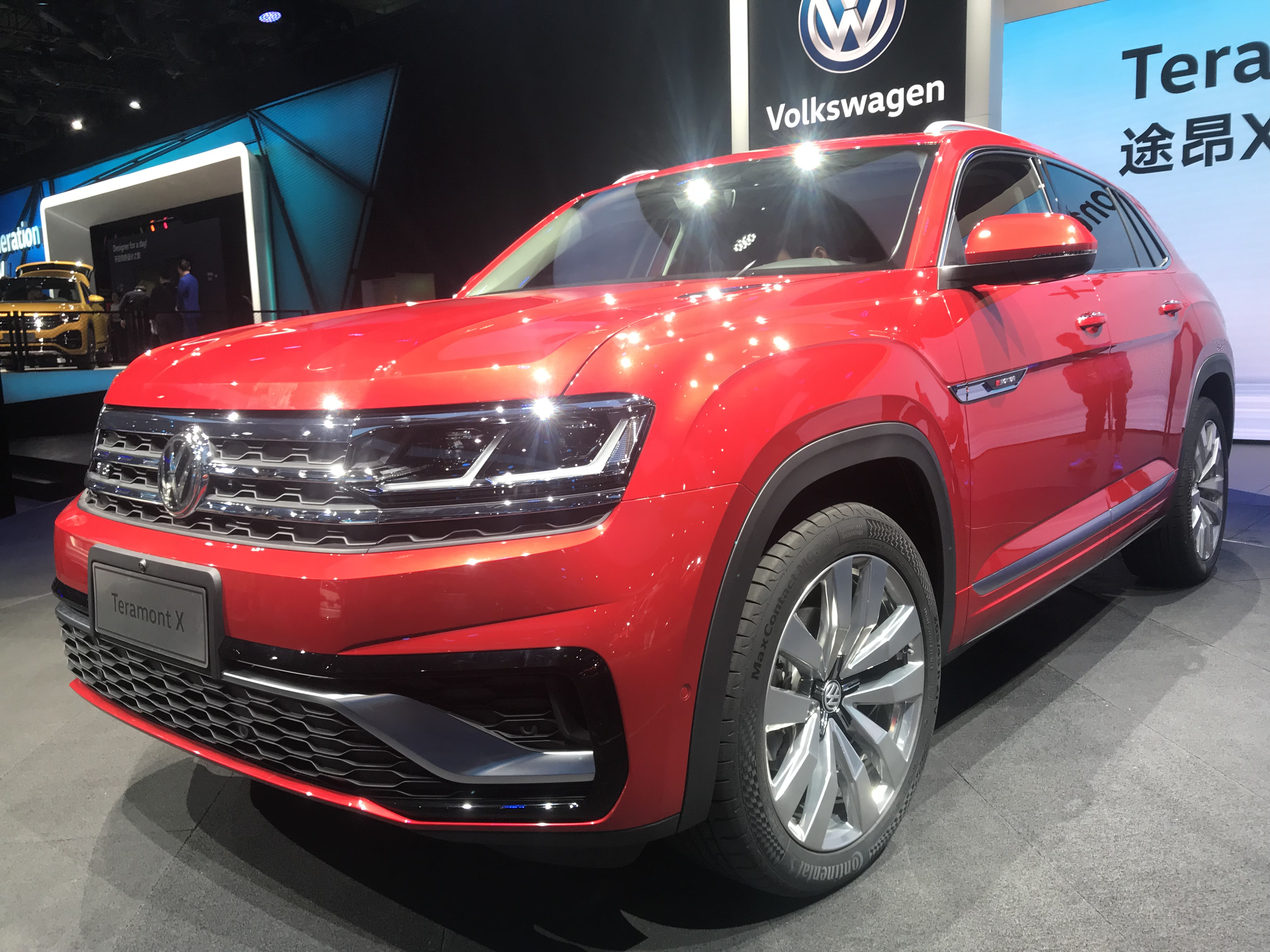 Volkswagen Teramont X front